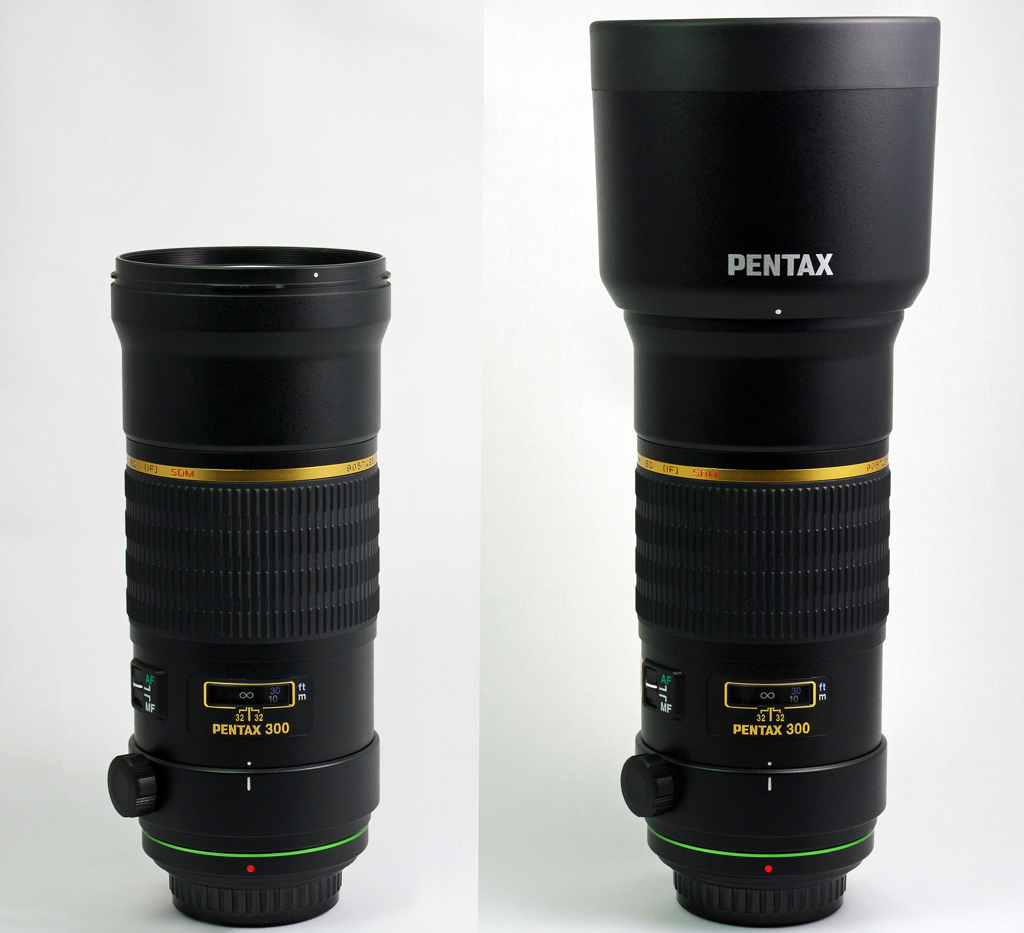 The telephoto lens Pentax smc DA* 300 mm / 4.0 ED [IF] SDM – without and with mounted lens hood.